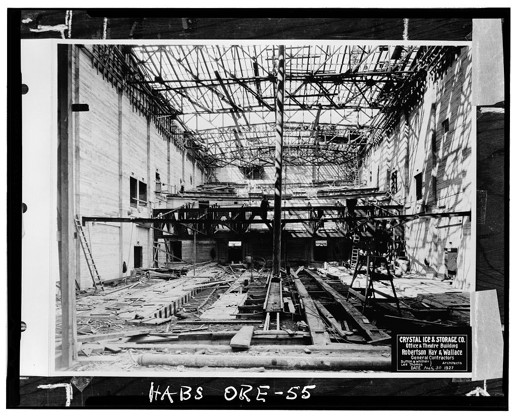 Oriental Theatre — interior construction. A movie palace-cinema formerly in Portland, Oregon — built in 1927 and demolished in 1970. 1927 photograph from the HABS—Historic American Buildings Survey images of Oregon. Credits File caption: 23. Historic American Buildings Survey, Stevens Commercial Photographers, August 30, 1927 INTERIOR CONSTRUCTION VIEW SHOWING MAIN BALCONY GIRDER. HABS ORE,26-PORT,3-23